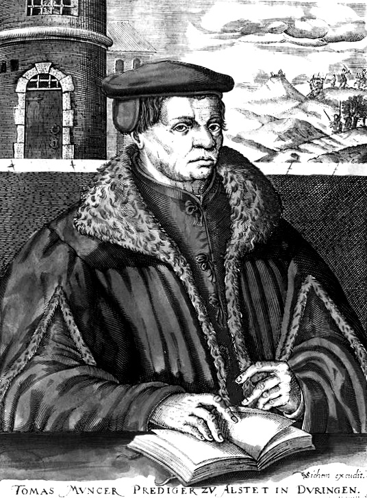 Contemporary portrait of Thomas Müntzer.